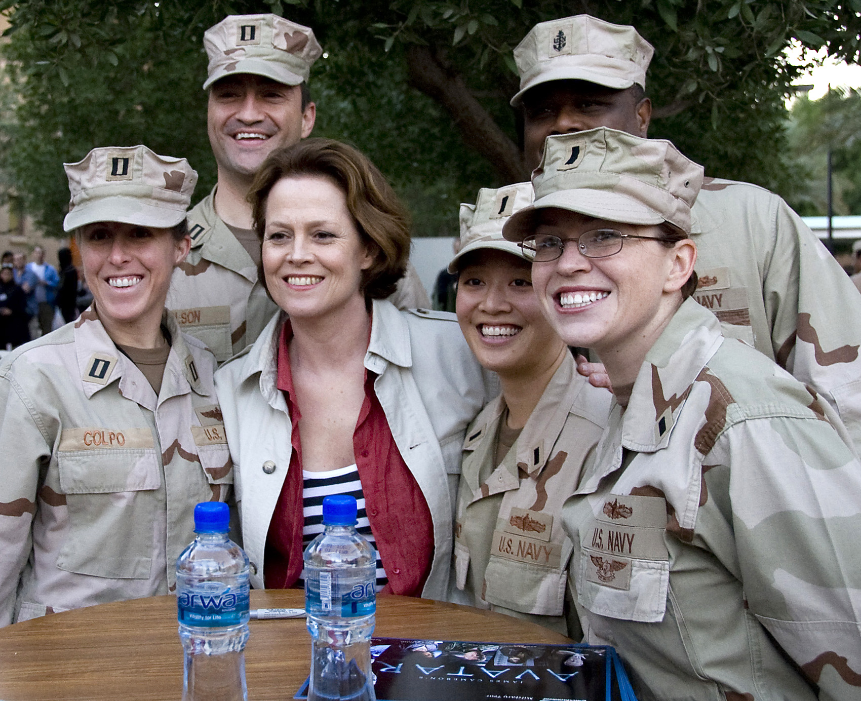 MANAMA, Bahrain (Jan. 28, 2010) Actress Sigourney Weaver poses with Sailors while visiting Naval Support Activity Bahrain to help promote the movie Avatar. The Navy Entertainment-sponsored event is one of several planned in the U.S. 5th Fleet area of responsibility. (U.S. Navy photo by Mass Communication Specialist 2nd Class Aramis X. Ramirez/Released).